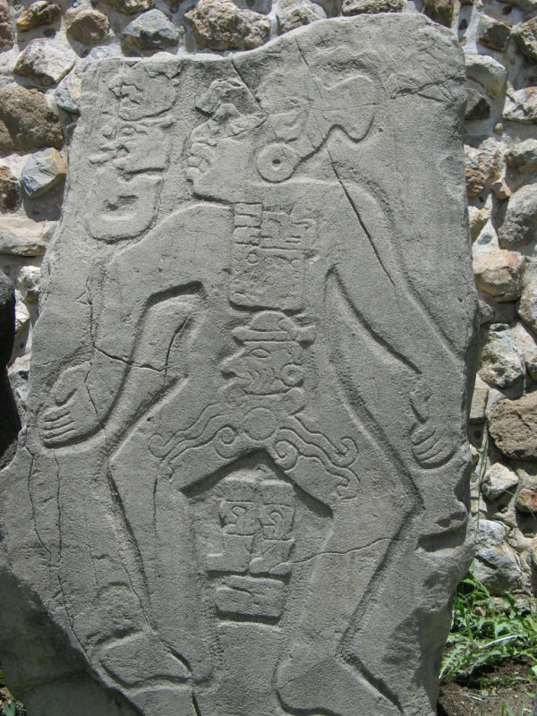 Photo of one of the danzantes, Monte Albán. July 2004.